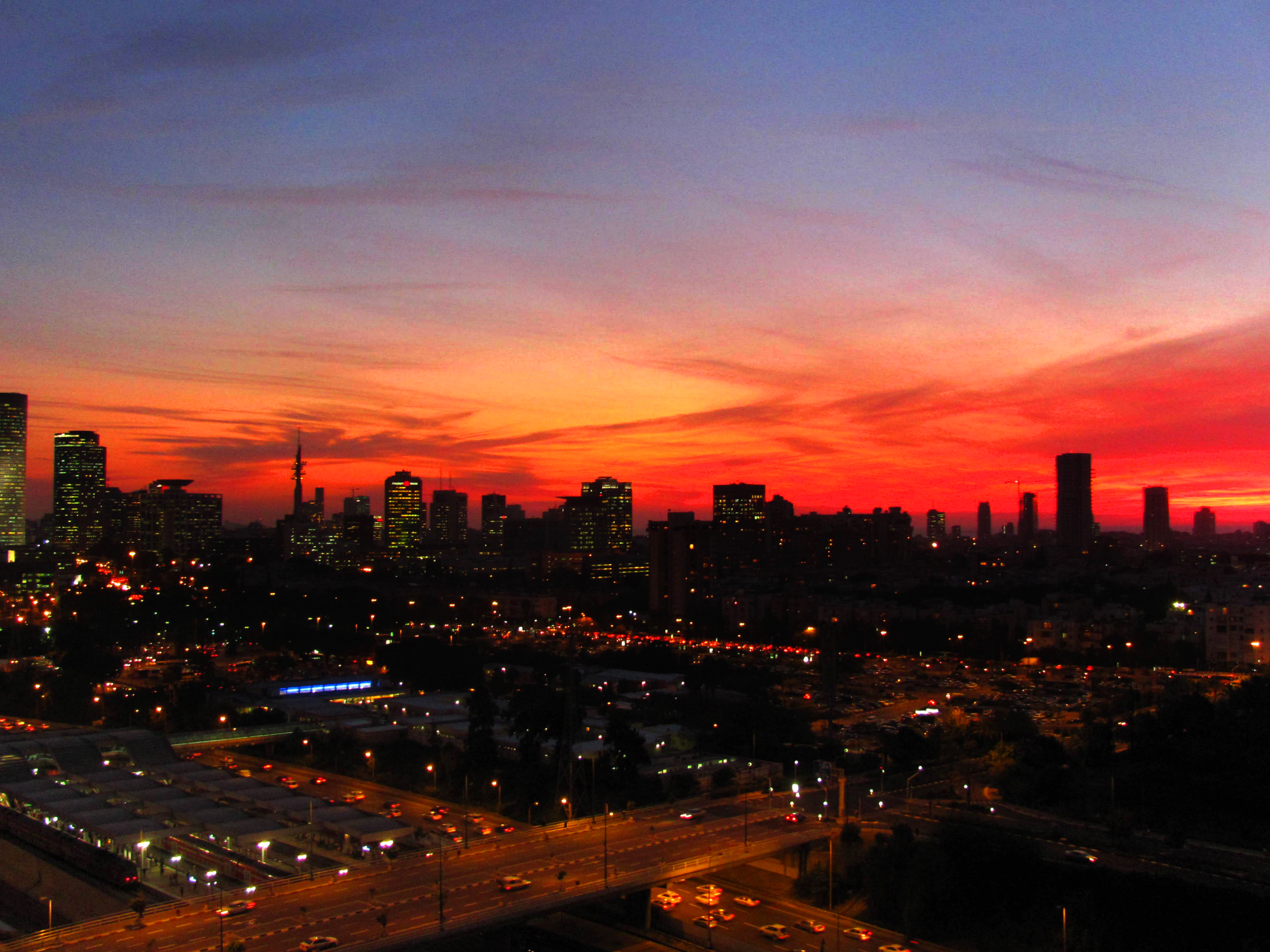 Cities in Israel